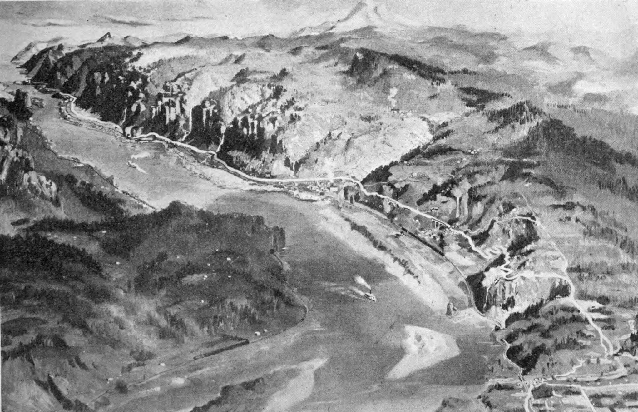 Bird's eye view of the Columbia Highway; Portland Rotary Club painting